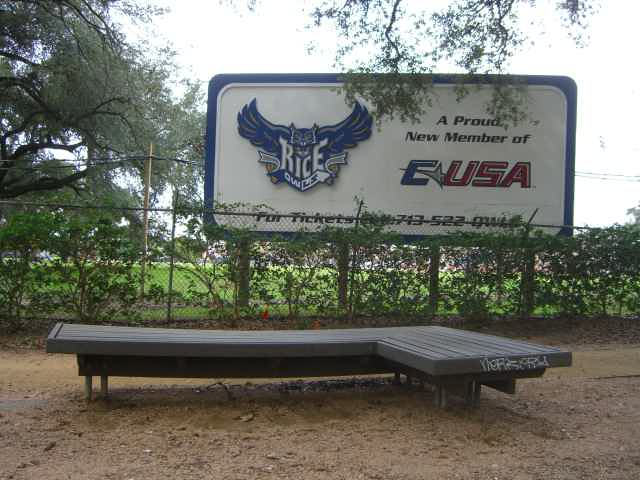 Photo by Nick Juhasz. Category:Images of Houston, Texas